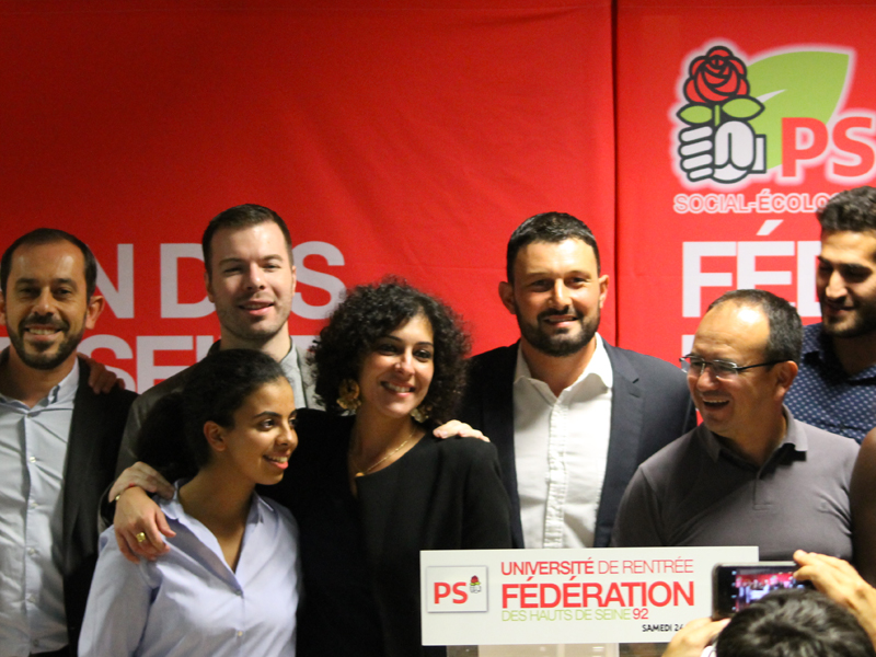 Xavier Iacovelli giving a speech for the Socialist convention of 2016